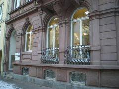 Sitz der DDV Geschäftsstelle in Frankfurt am Main